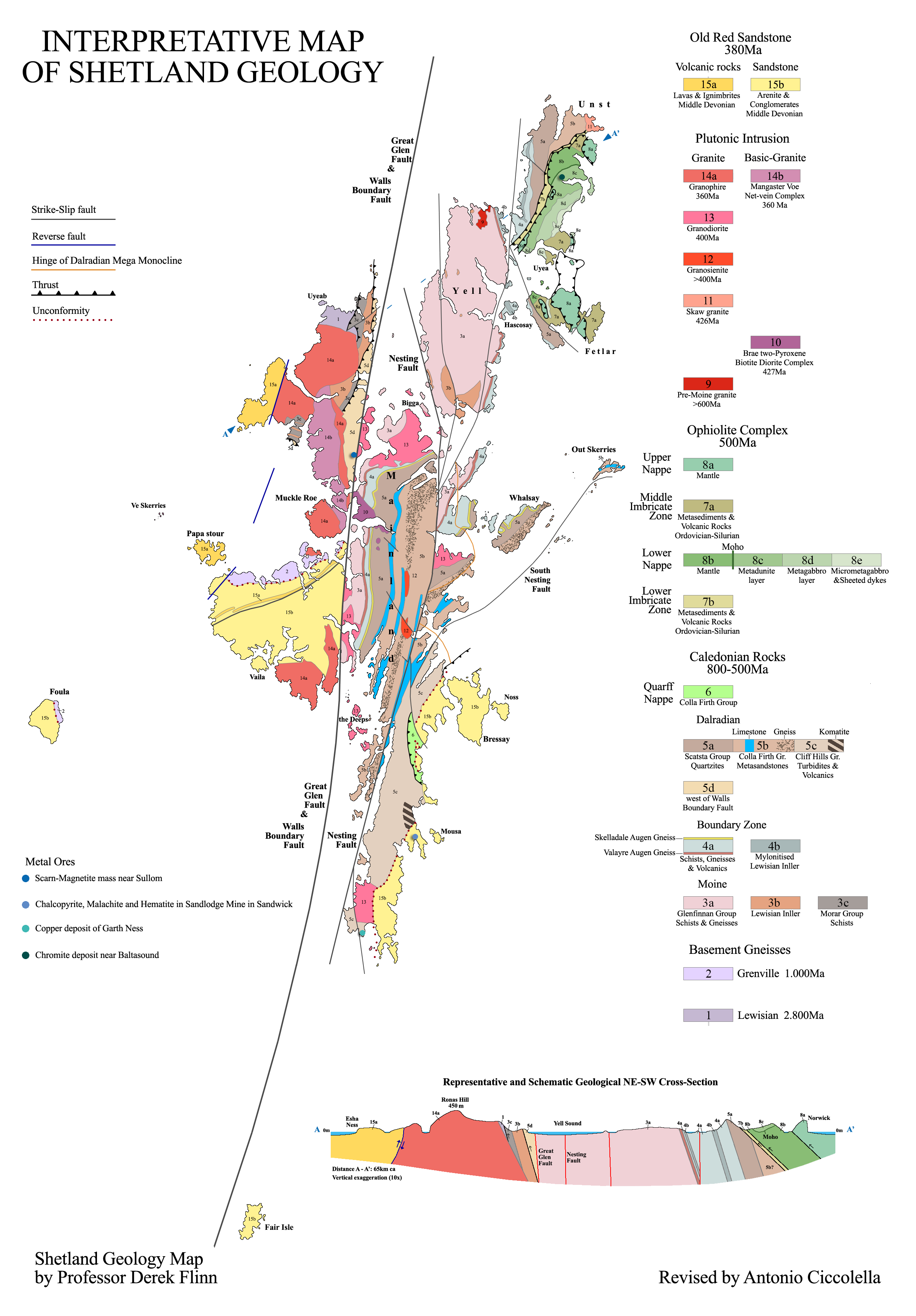 Interpretative map of Shetland geology